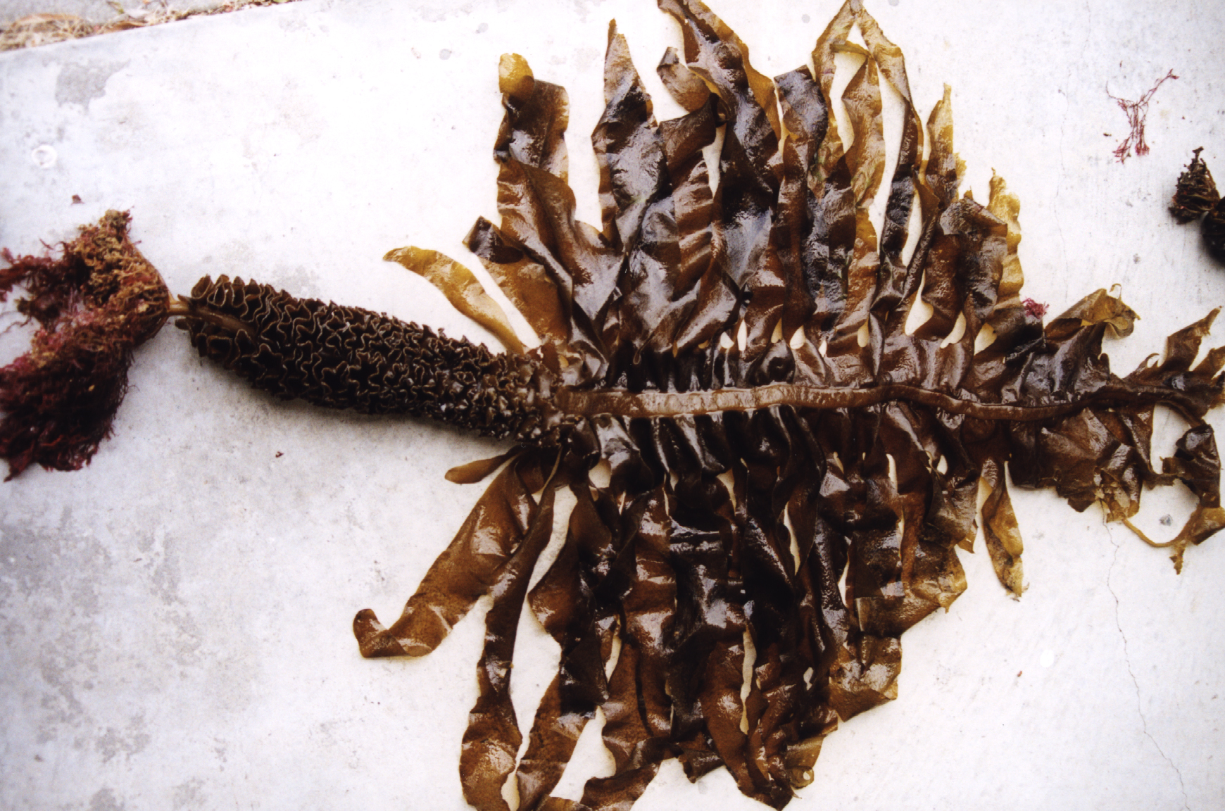 Undaria pinnatifida is a brown seaweed that reaches an overall length of 1-3 m. Undaria is a native of the Japan Sea and the northwest Pacific coasts of Japan and Korea. In Japan, Undaria, known locally as 'wakame', is extensively cultivated as a food plant. Japanese consumption of the alga is around 200,000 tonnes of fresh or dried plant per annum. Undaria is regarded as a pest because it is highly invasive, grows rapidly and has the potential to overgrow and exclude native seaweeds. It was first detected in Australia in 1988 near Triabunna on the east coast of Tasmania. Over the following ten years it spread along 100 kms of the Tasmanian east coast and also to Victoria - the most likely vector being international shipping.